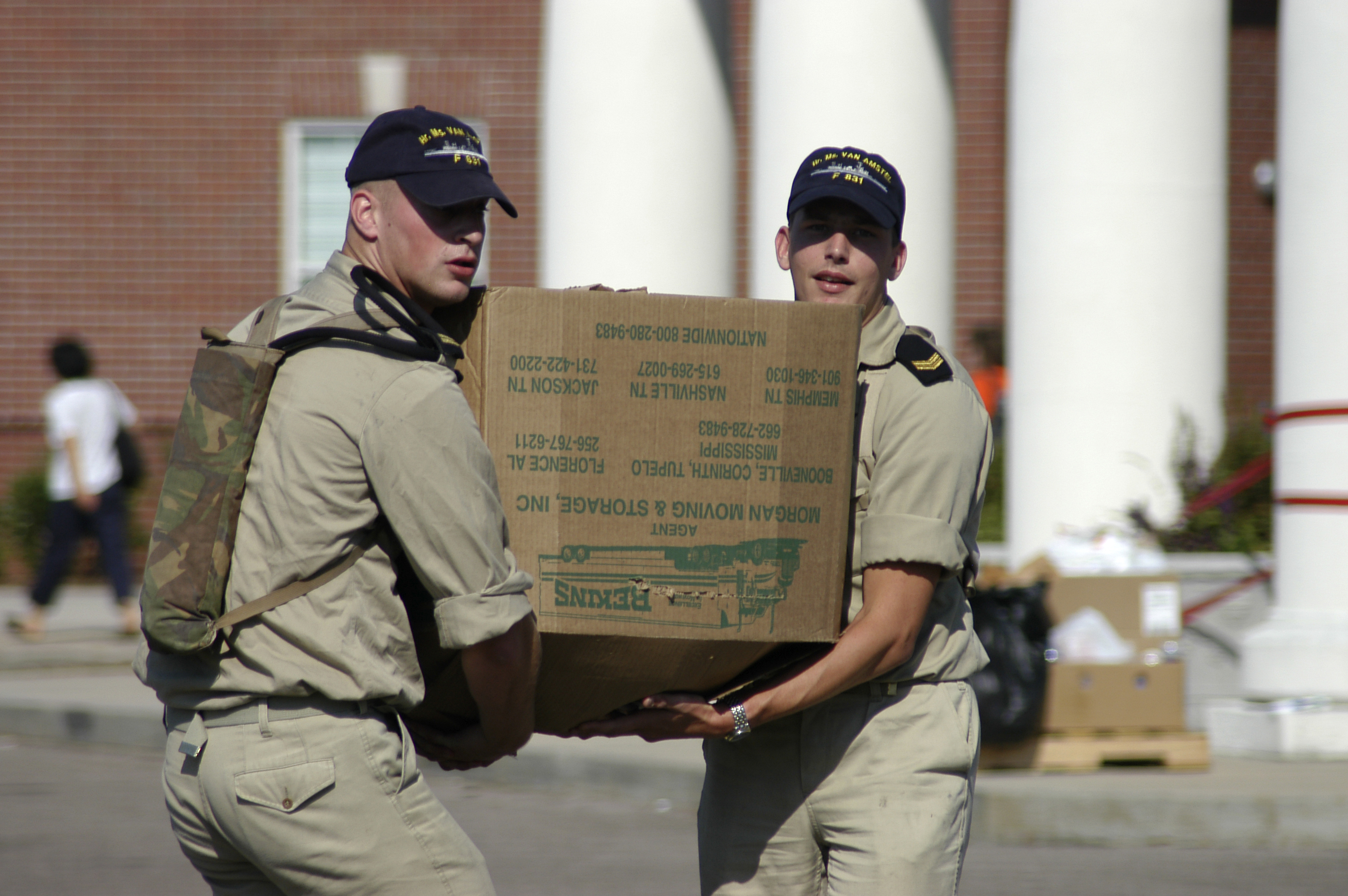 D'Iberville, Miss. (Sept. 8, 2005) – Dutch Navy Sailors assigned to the frigate Van Amstel (F 831), lend a helping hand by carrying a box of household goods to a Hurricane Katrina survivor’s vehicle in D’Iberville, Miss. Sailors from the Netherlands, United States and Mexican navies are assisting in the relief efforts where needed. The Navy's involvement in the Hurricane Katrina humanitarian assistance operations is led by the Federal Emergency Management Agency (FEMA), in conjunction with the Department of Defense. U.S. Navy photo by Photographer’s Mate Airman Jeremy L. Grisham (RELEASED)